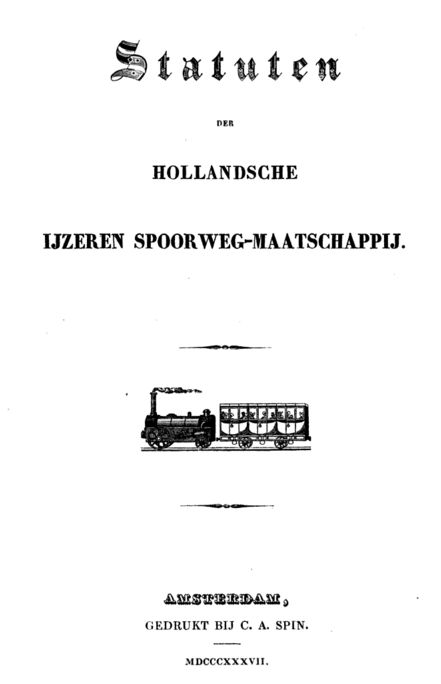 Statuten der Hollandsche IJzeren Spoorweg-Maatschappij, 1837